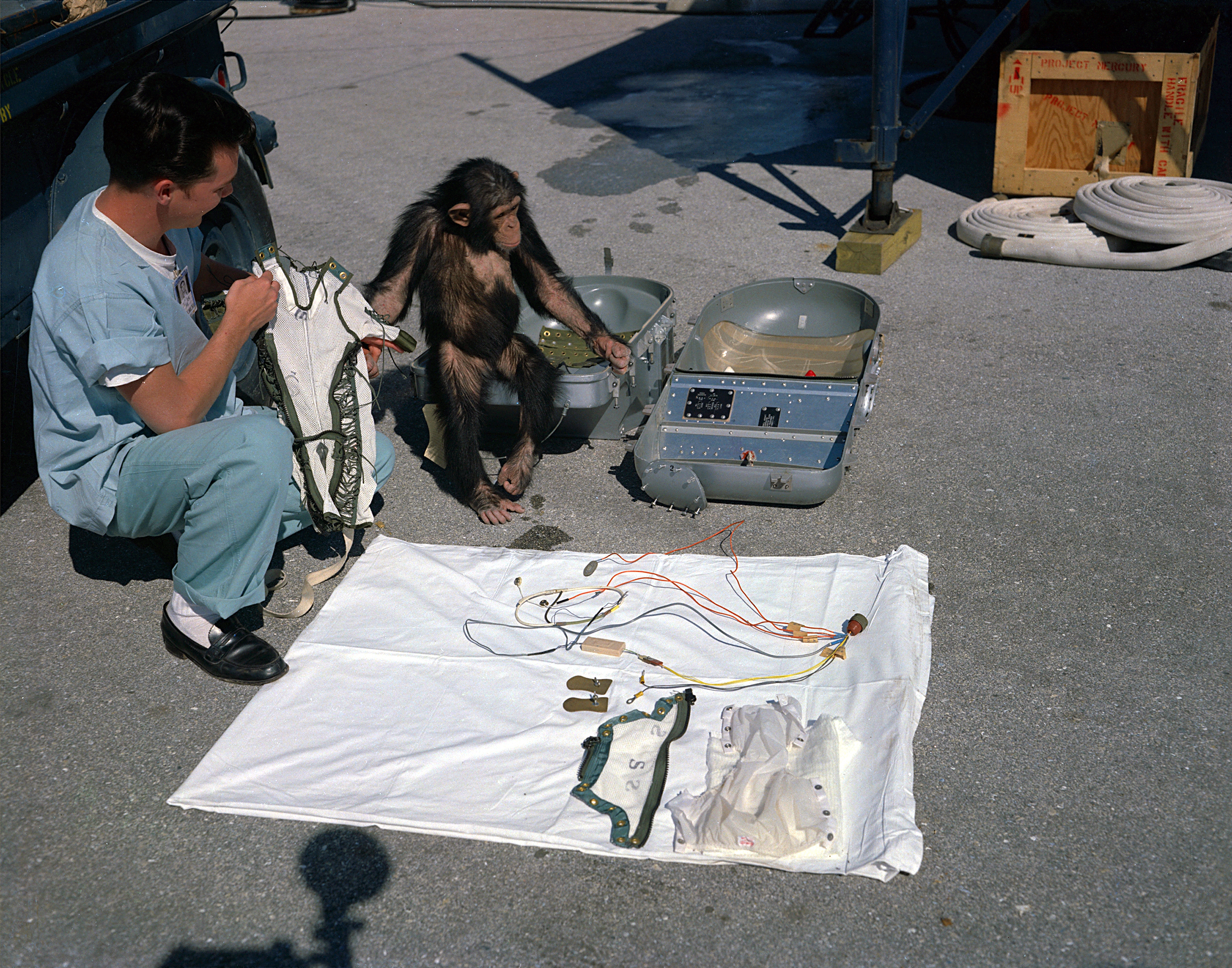 Chimpanzee Ham and technician go over equipment in preparation for launch. Image # : 61C-0109